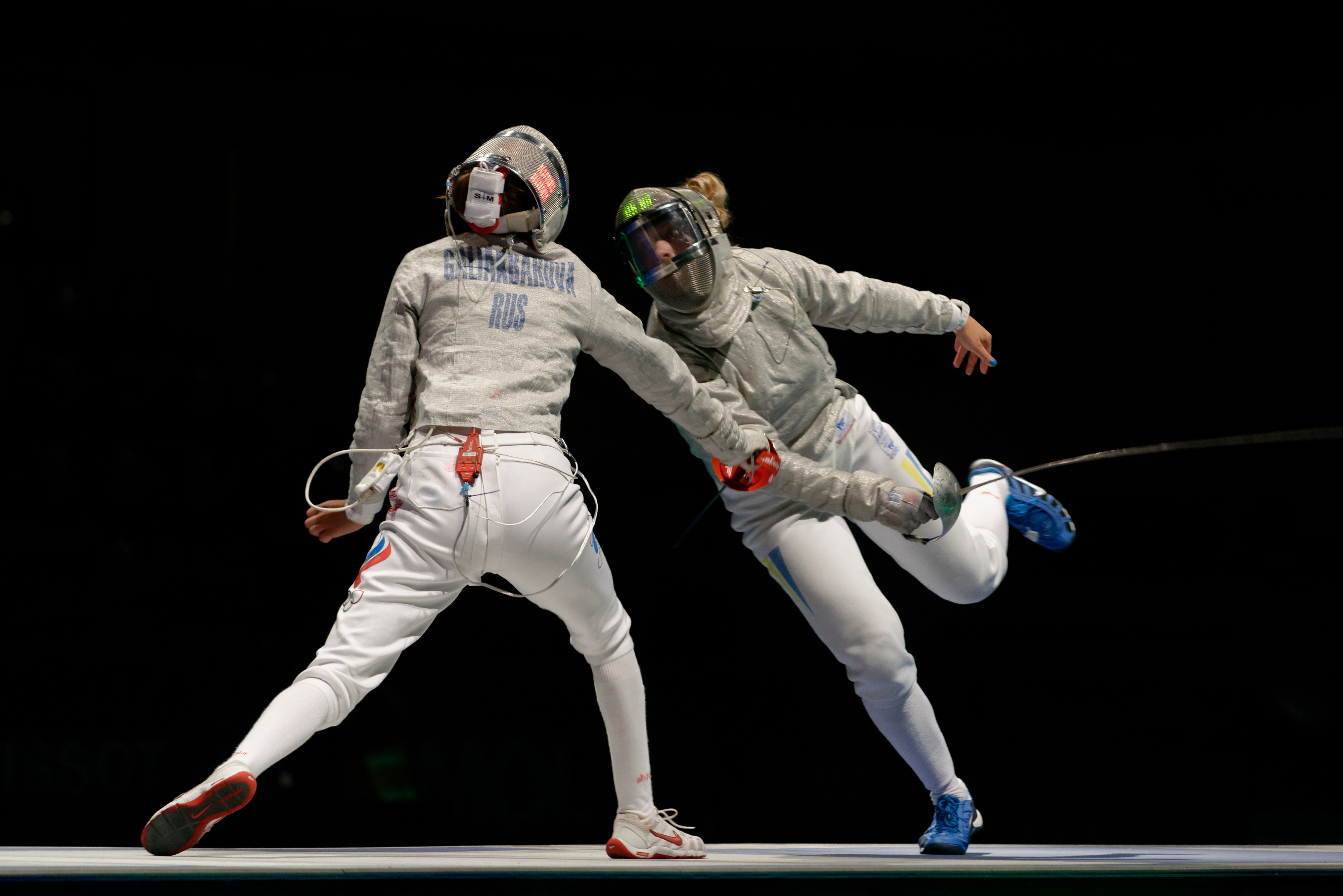 Olha Kharlan of Ukraine (R) scores a hit against Russia's Dina Galiakbarova (L) in the women's team sabre final of the 2013 World Fencing Championships 2013 at Syma Hall in Budapest, 12 August 2013.